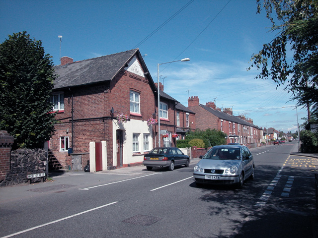 High Street Saltney Main road through Saltney from Hawarden to Chester